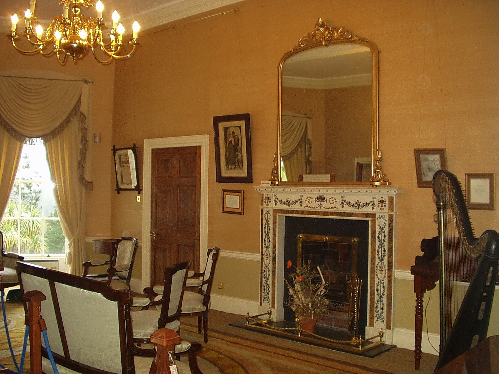 Interior of Avondale House